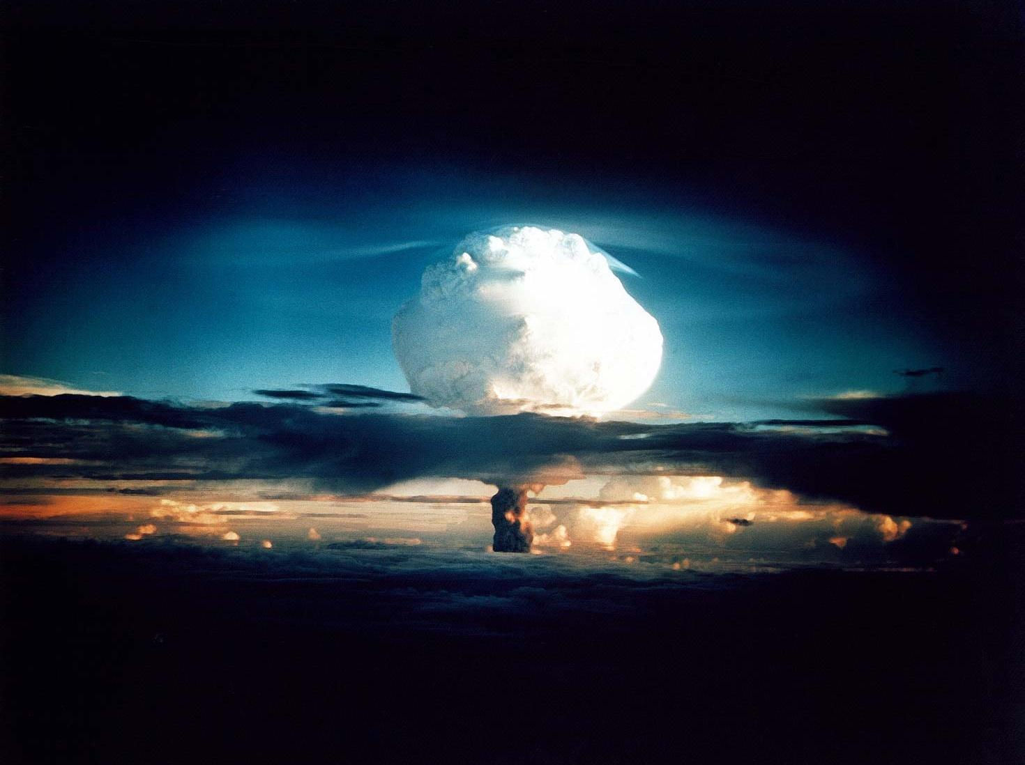 Nuclear weapon test Mike (yield 10.4 Mt) on Enewetak Atoll. The test was part of the Operation Ivy. Mike was the first hydrogen bomb ever tested, an experimental device not appropriate for use as a weapon.